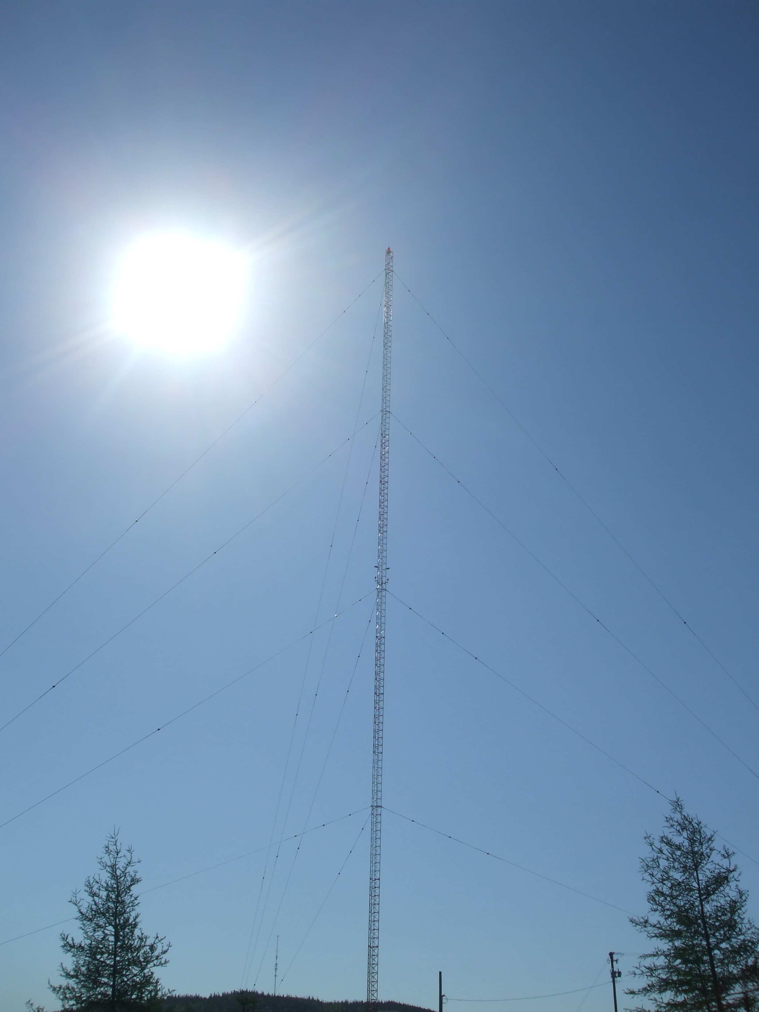 A photo which I took of the new mast radiator CFCB AM transmitter located near the Lewin Parkway (Route 450) just south of the Lewin Parkway & O'Connell Drive intersection.